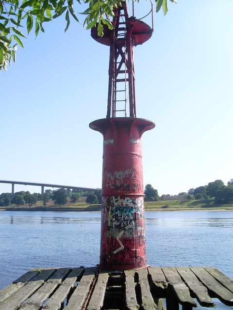 Buoy by the River Clyde Heavily graffitied. On the north bank of the Clyde, near Old Kilpatrick.